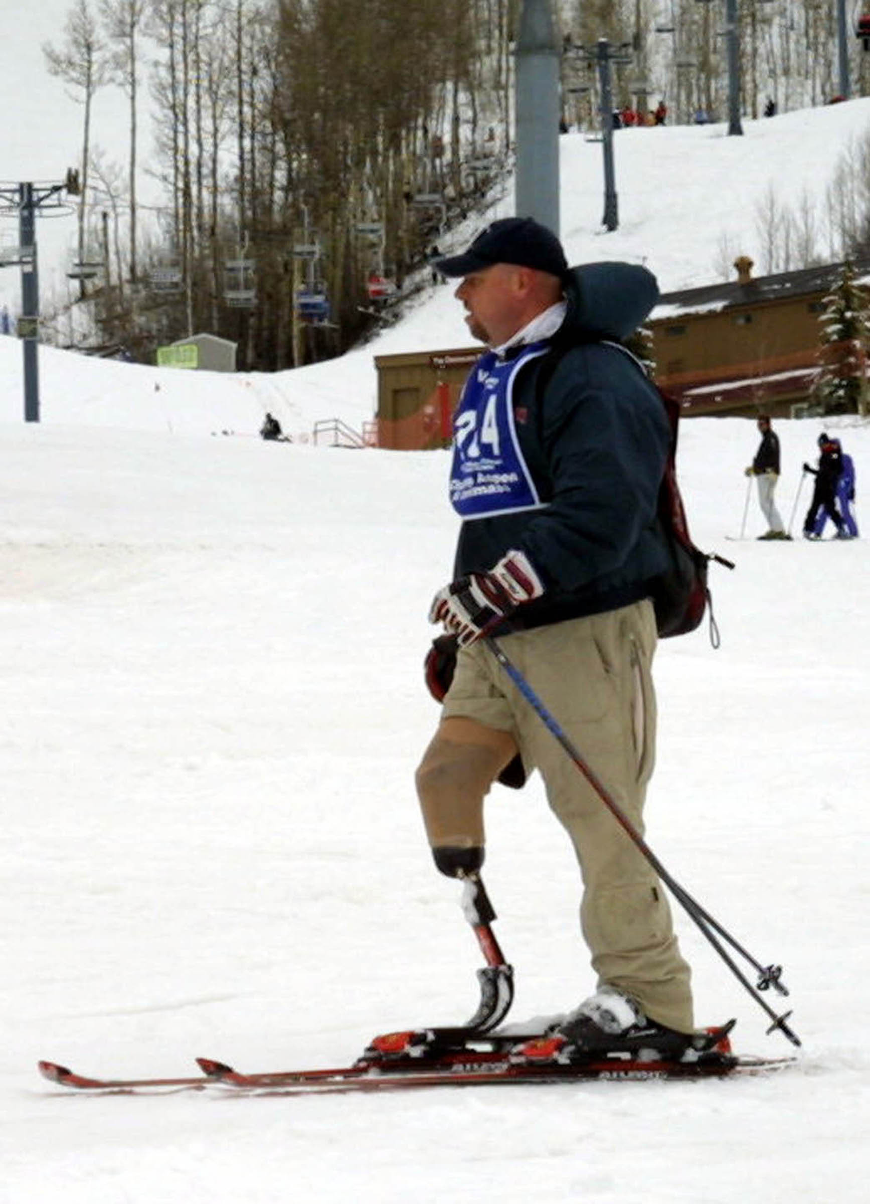 Christopher Nowak, a veteran from Clayton, N.J., was among more than 300 veterans participating in the 18th annual National Disabled Veterans Winter Sports Clinic, held April 4-9 at Snowmass Village, Colo. Just over 20 Soldiers who lost limbs in operations Enduring Freedom and Iraqi Freedom also participated.